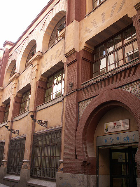 Former La Tribuna newspaper building, in Madrid (Spain). Projected in 1912 by Luis Mosteiro Canas. Neo-Mudéjar style.